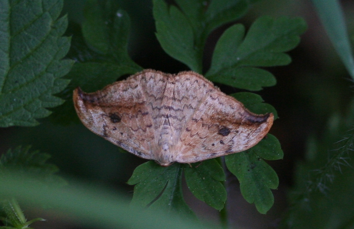 Drepana_falcataria 11 June 2006 IJmuiden, the Netherlands